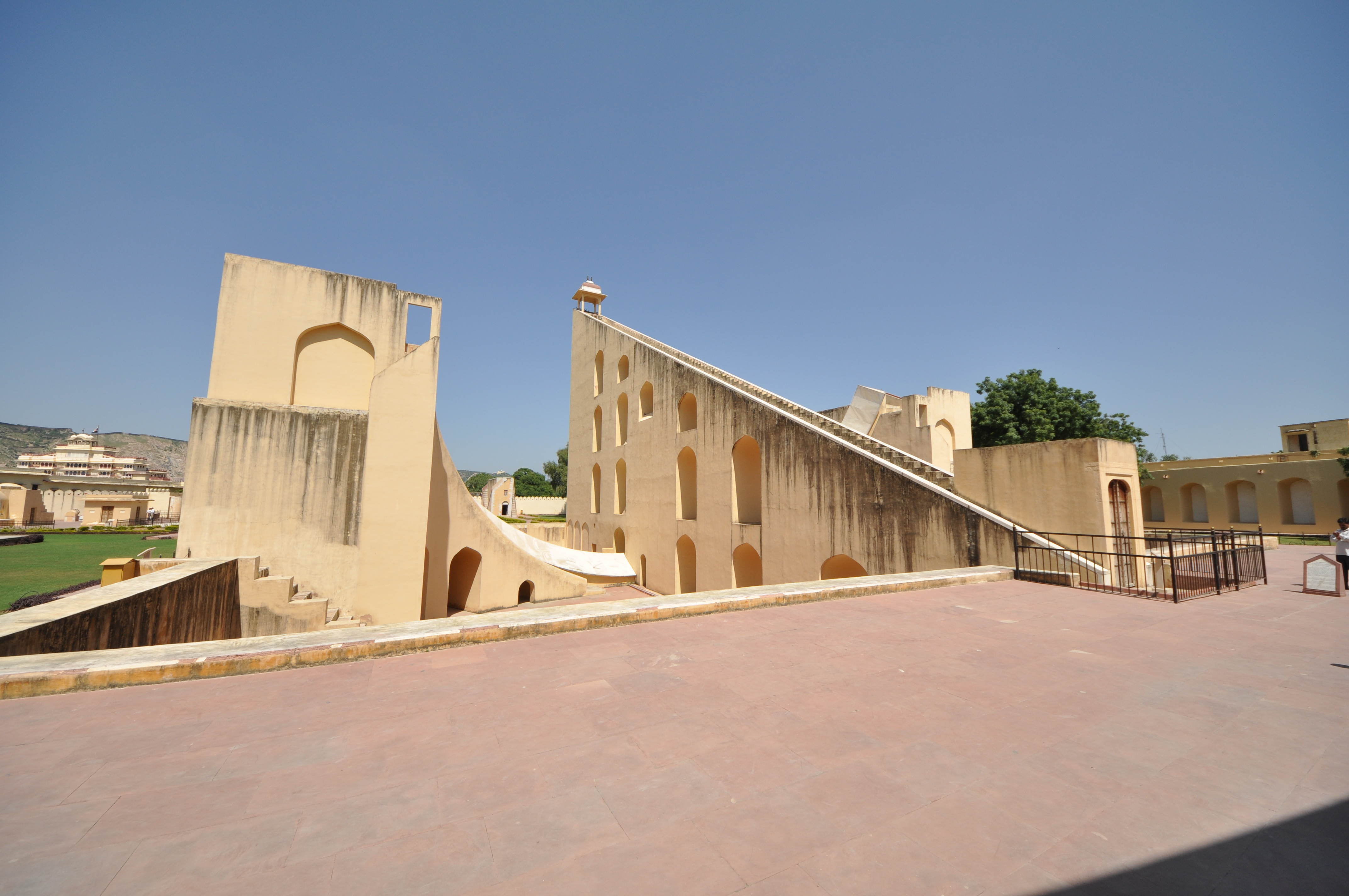 Samrat Jantar worlds largest sundial in Jaipur Rajasthan.